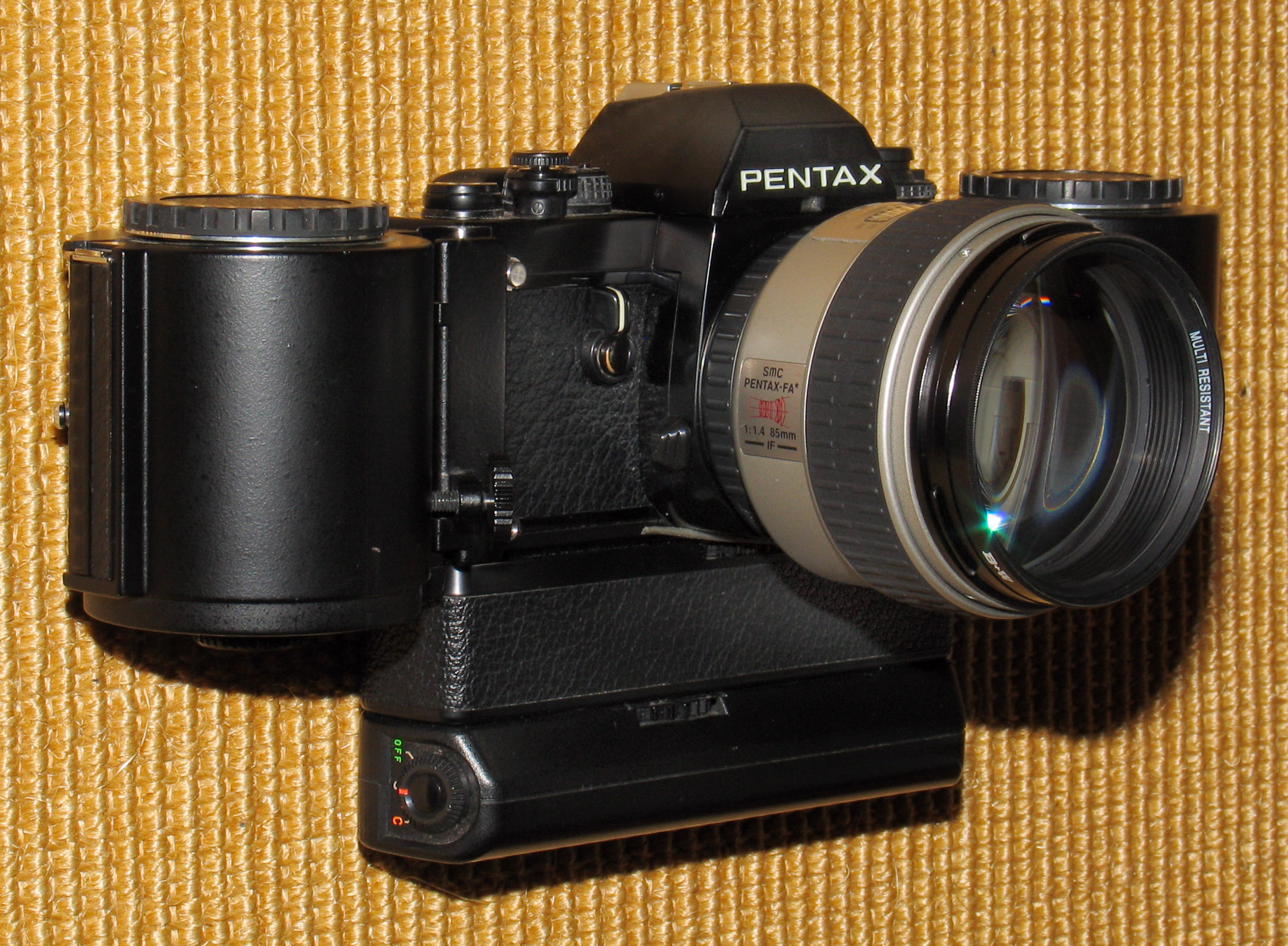 Pentax LX with accessories